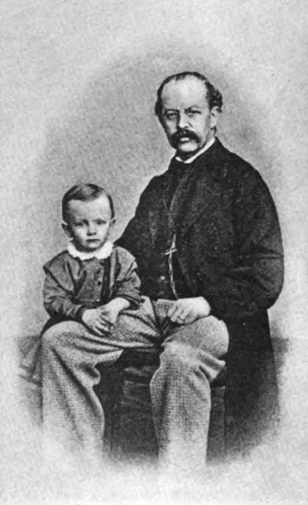 Gerhart Hauptmann